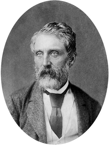 This image of Walter M. Gibson (1822–1888), Attorney General, Minister of Foreign Affairs and Minister of the Interior for the Kingdom of Hawaii.